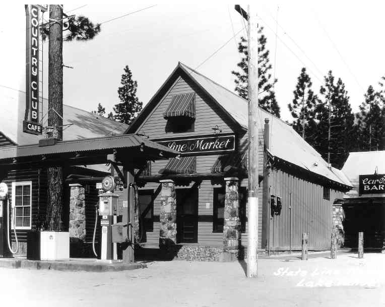 Photo of the Stateline Country Club and Stateline Market on the Nevada and California Border (Nevada side).